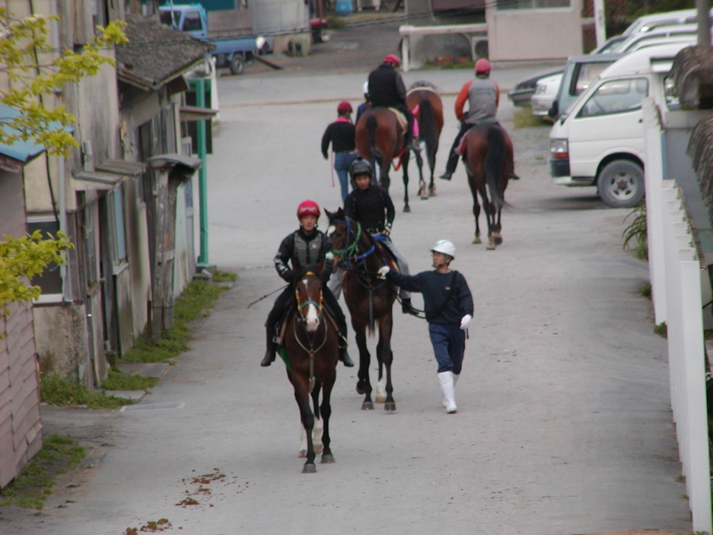 The training section of Kawasaki Racecourse in Kawasaki, Kanagawa, Japan.